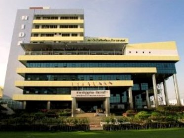 Building of Boonchana at NIDA Business School.